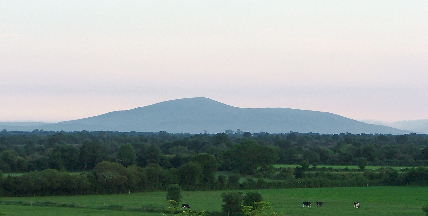 a photo of Slievenamon taken from about 30km to north east of the mountain.